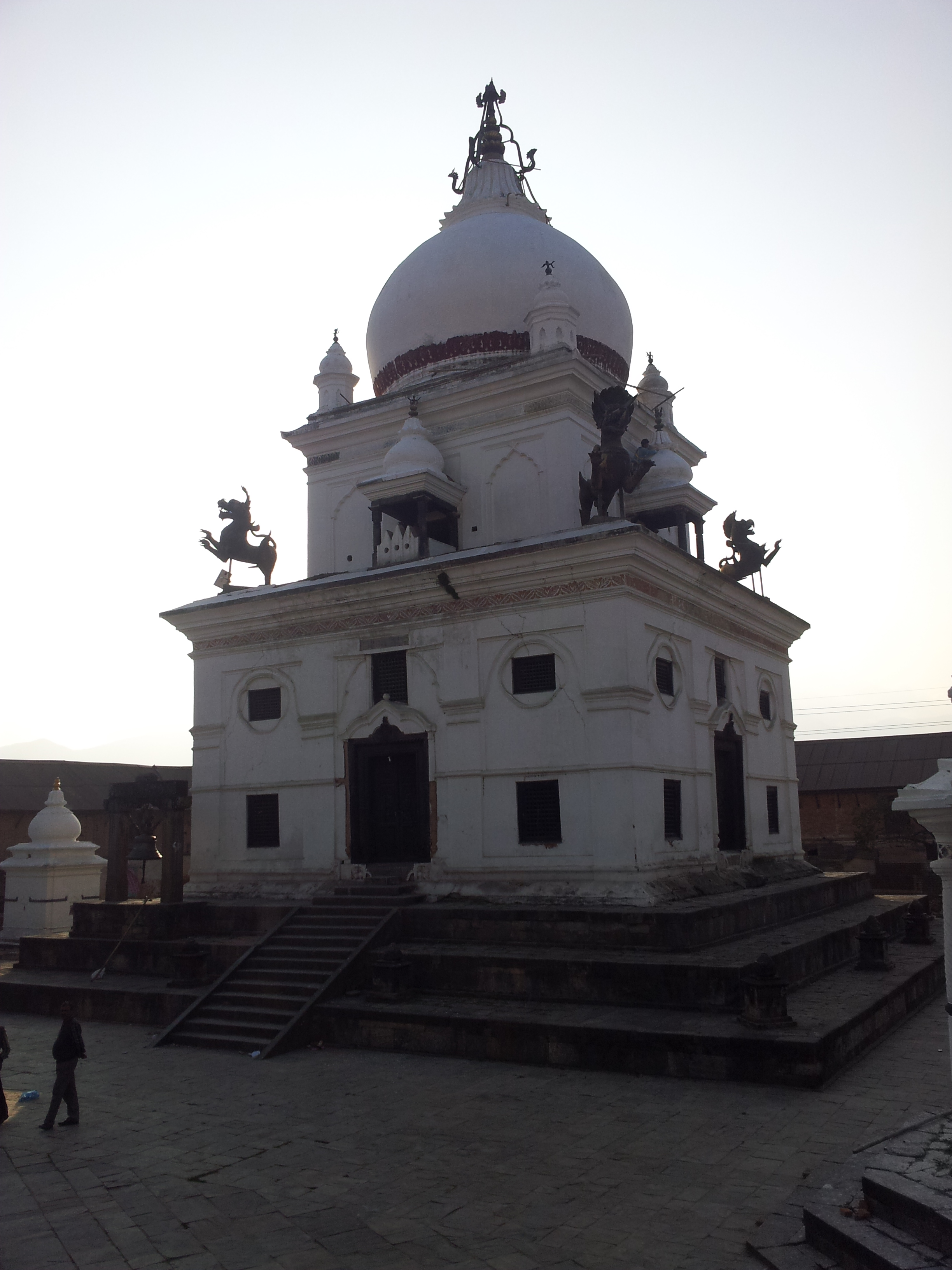 Kalmochan Temple, built by Jung Bahadur Rana, by the bank of Bagamati river at Tripureshowr, Kathmandu